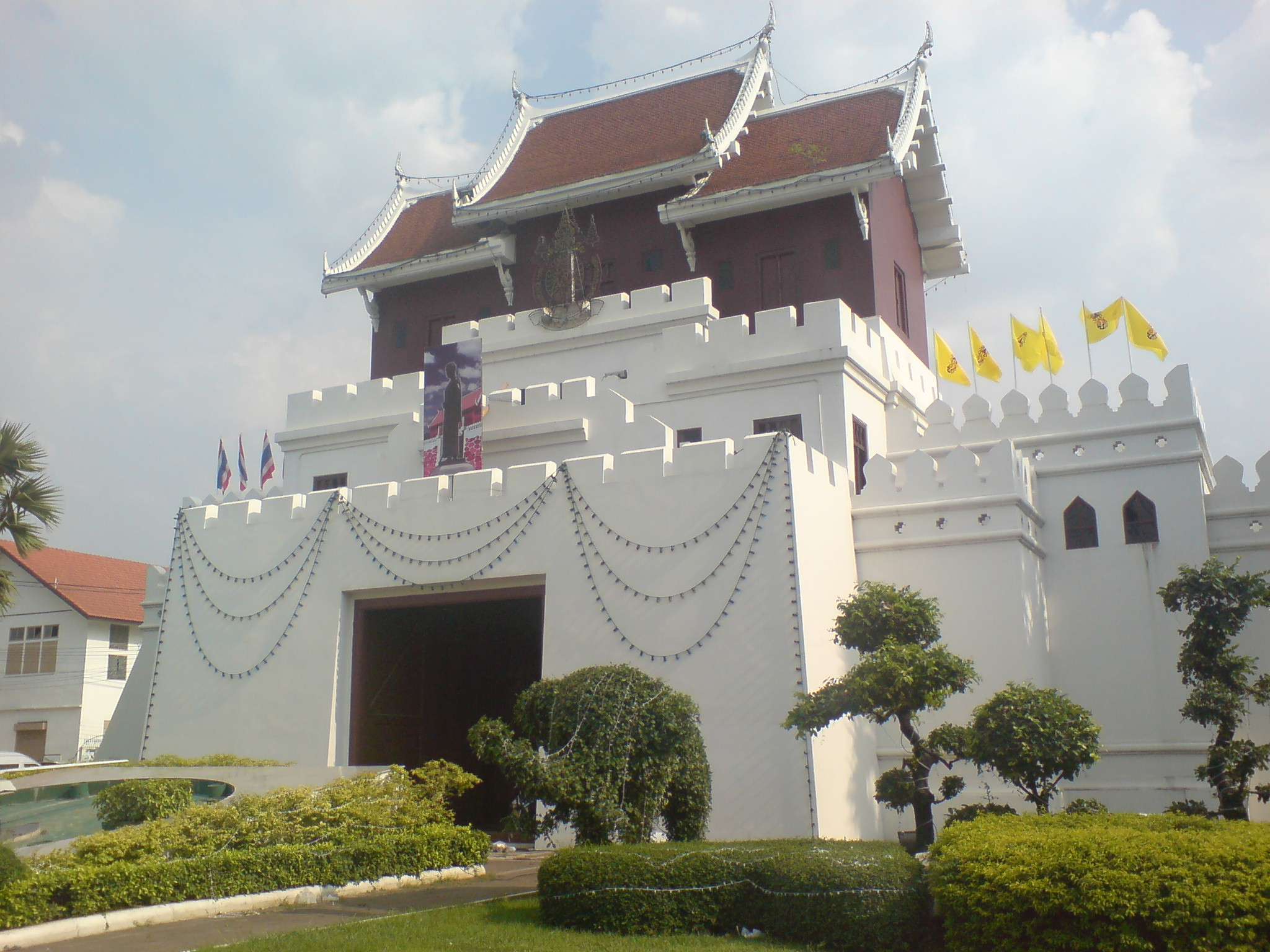 Replica of a traditional city gate in Nakhon Ratchasima. A modern replica of a traditonal city gate at the end of Ratchadamnoen Road, taken from Highway 224, Nakhon Ratchasima.